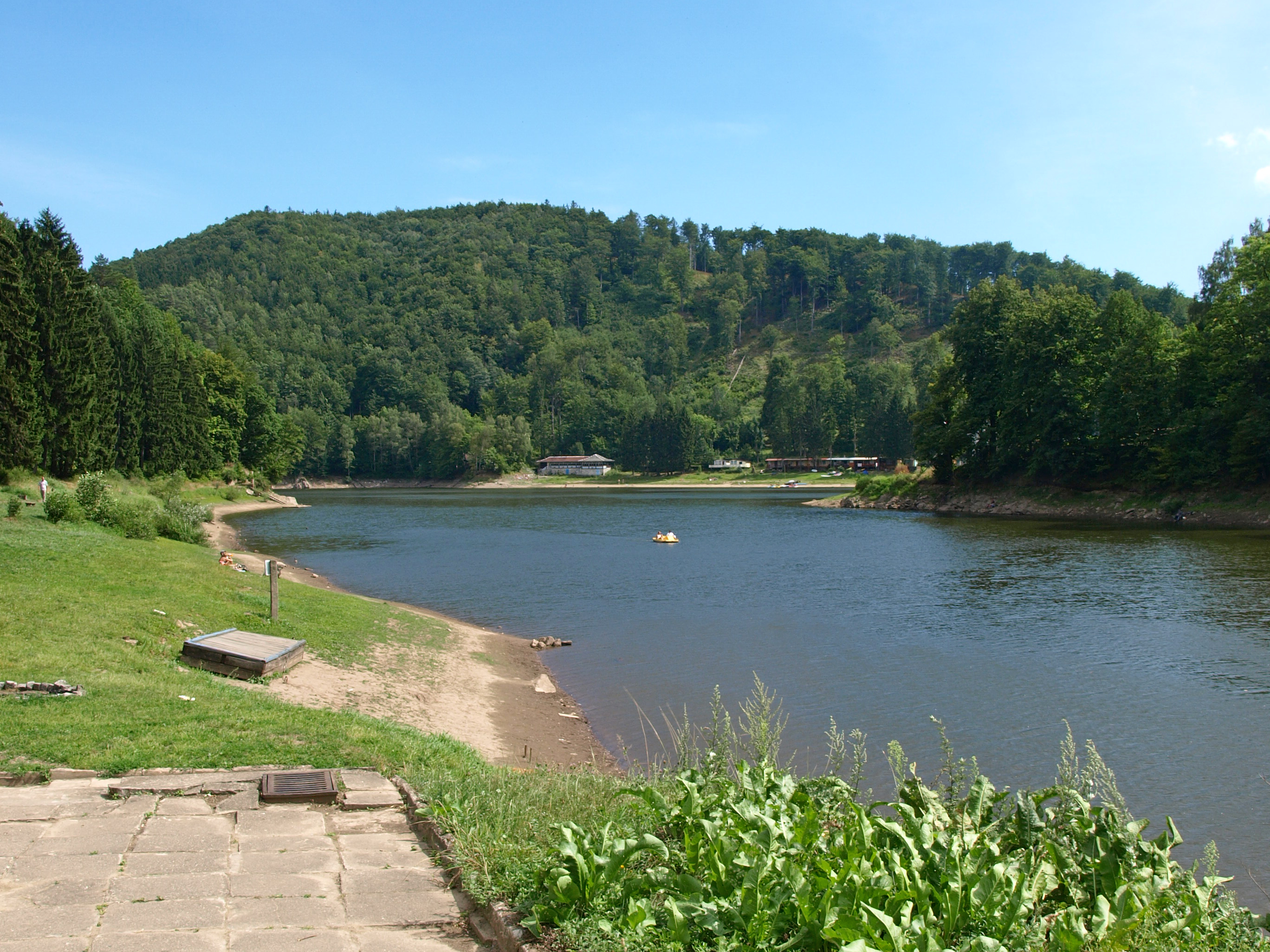 Bystrzyca in Lubachów, Poland.